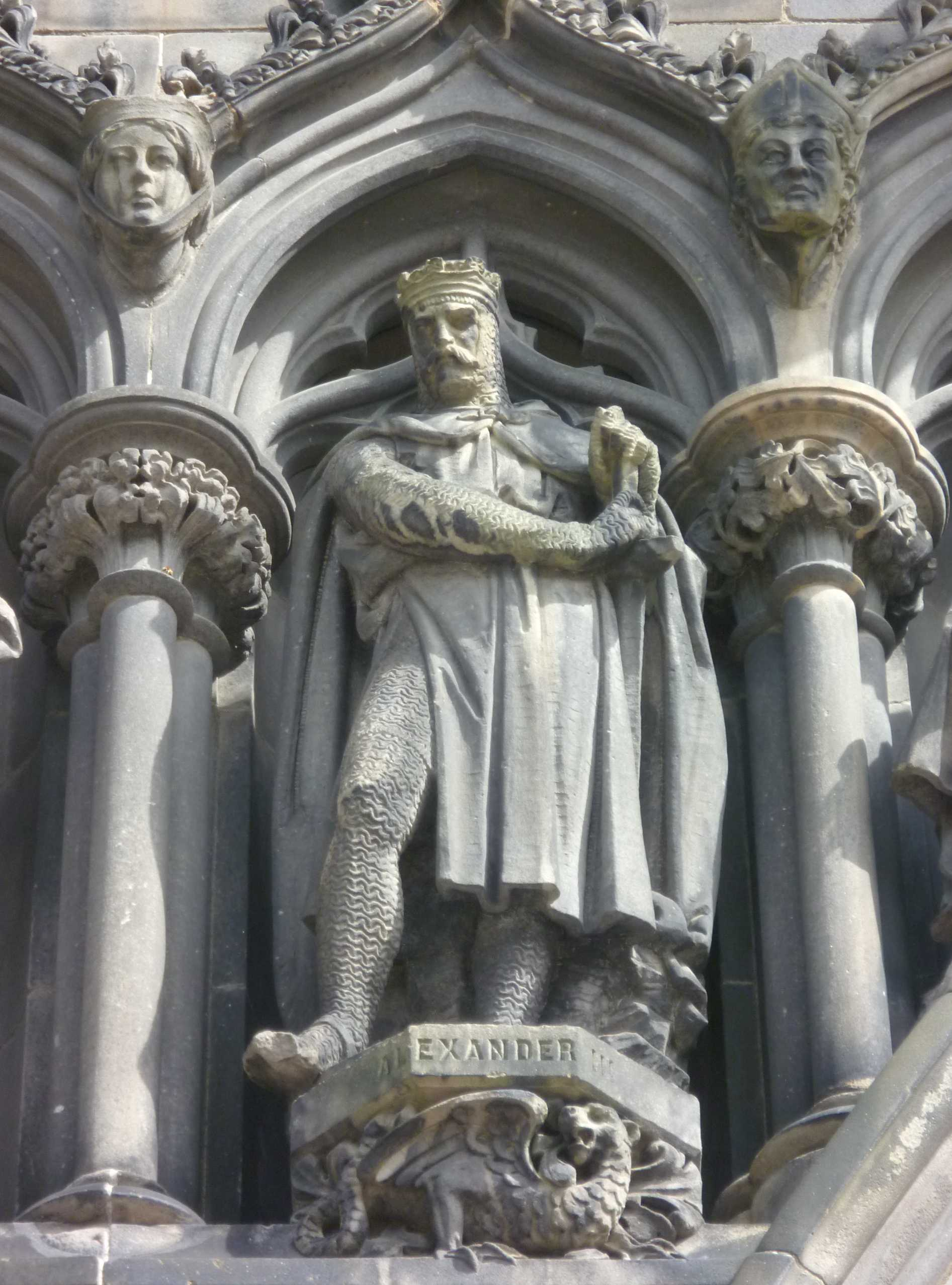 Scottish king, chiefly remembered for ending the Norse threat from the western isles by defeating an invasion force led by the Norwegian king, Haakon IV, at the battle of Largs in 1263. The victory was as much due to a storm that wrecked the Norse fleet, sheltering at Lamlash on the Isle of Arran, as the small military engagement that followed on-shore. By the Treaty of Perth (1266) the Scottish kingdom acquired the Isle of Man and the Hebrides; and peace was further cemented in 1281 by the marriage of Alexander's daughter, Margaret, to Norway's King Eric II.